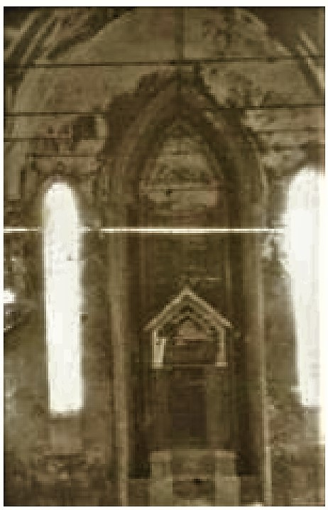 Spanish Temple, at 18 on Mircea Street in Constanța, Romania, interior, 1942